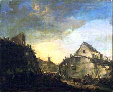 Construction works at the galley dock.